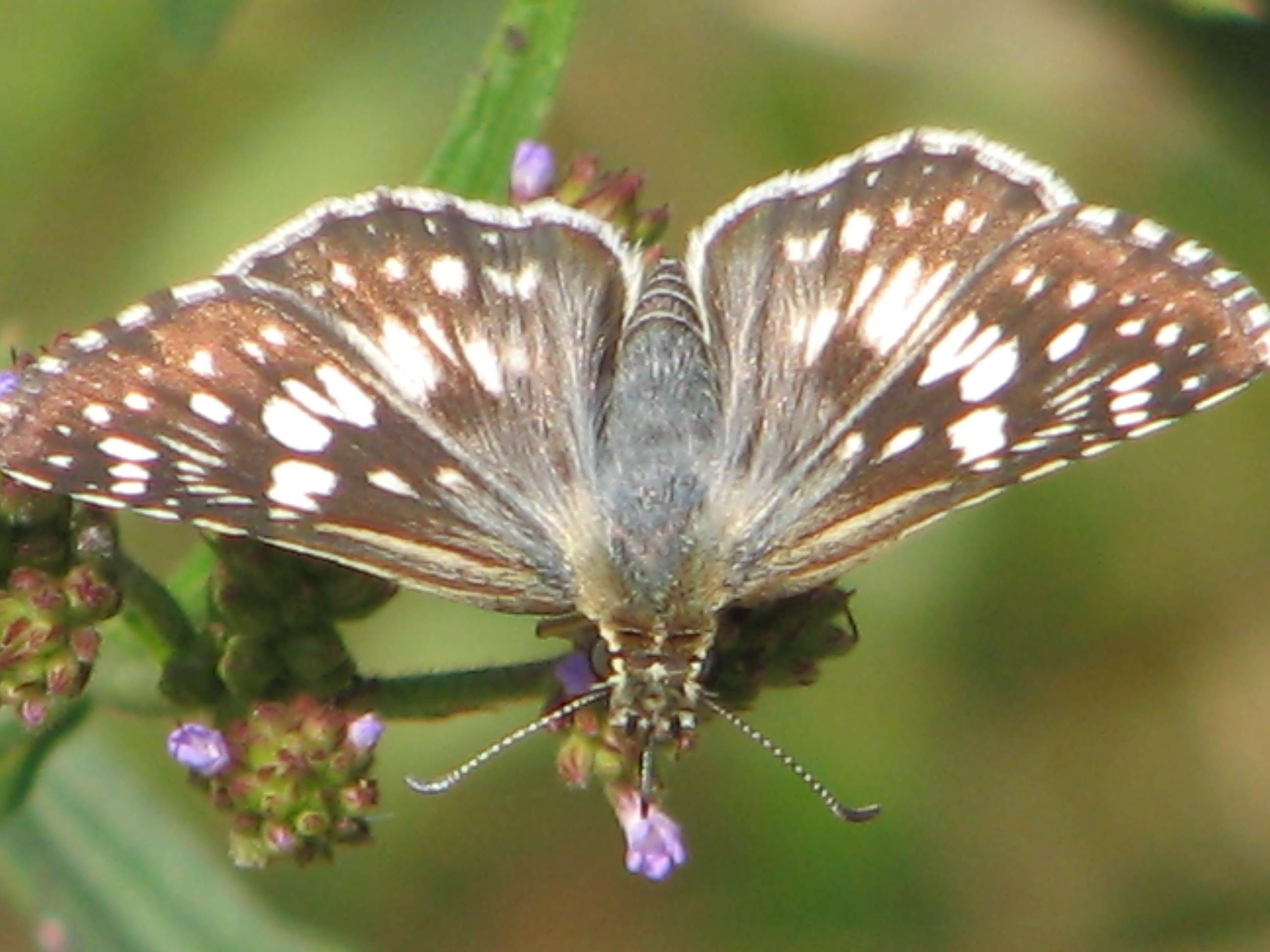 Pyrgus communis at Congaree National Park, South Carolina, USA